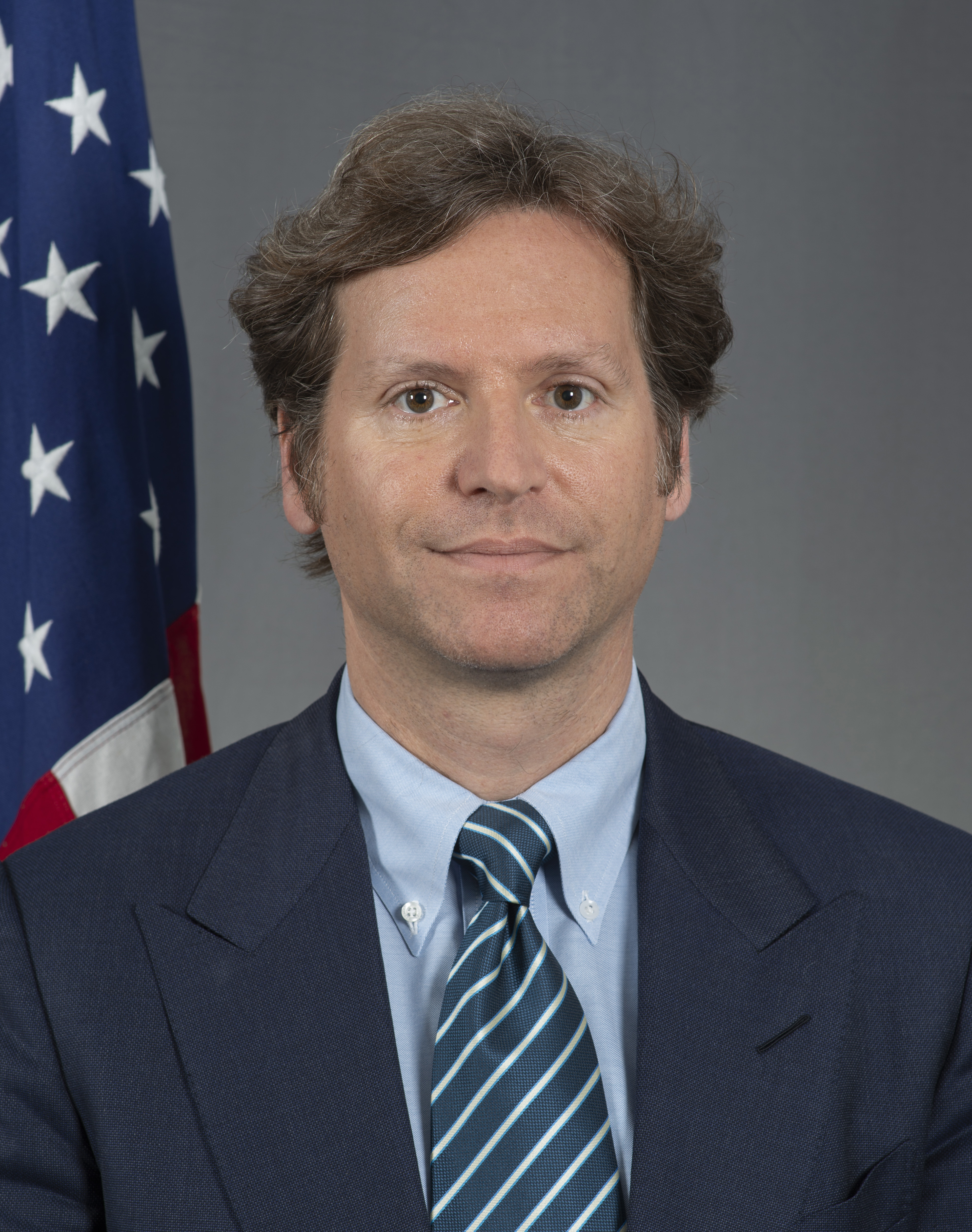 Trevor D. Traina